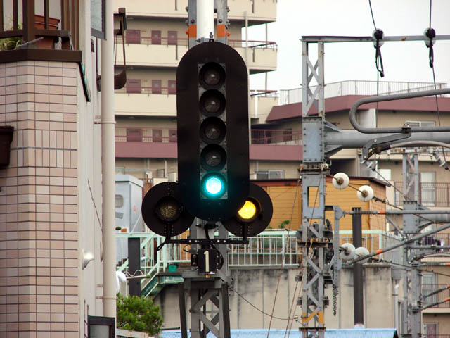 Block signal and preliminary route indicator, installed between Teradacho station and Tennoji station